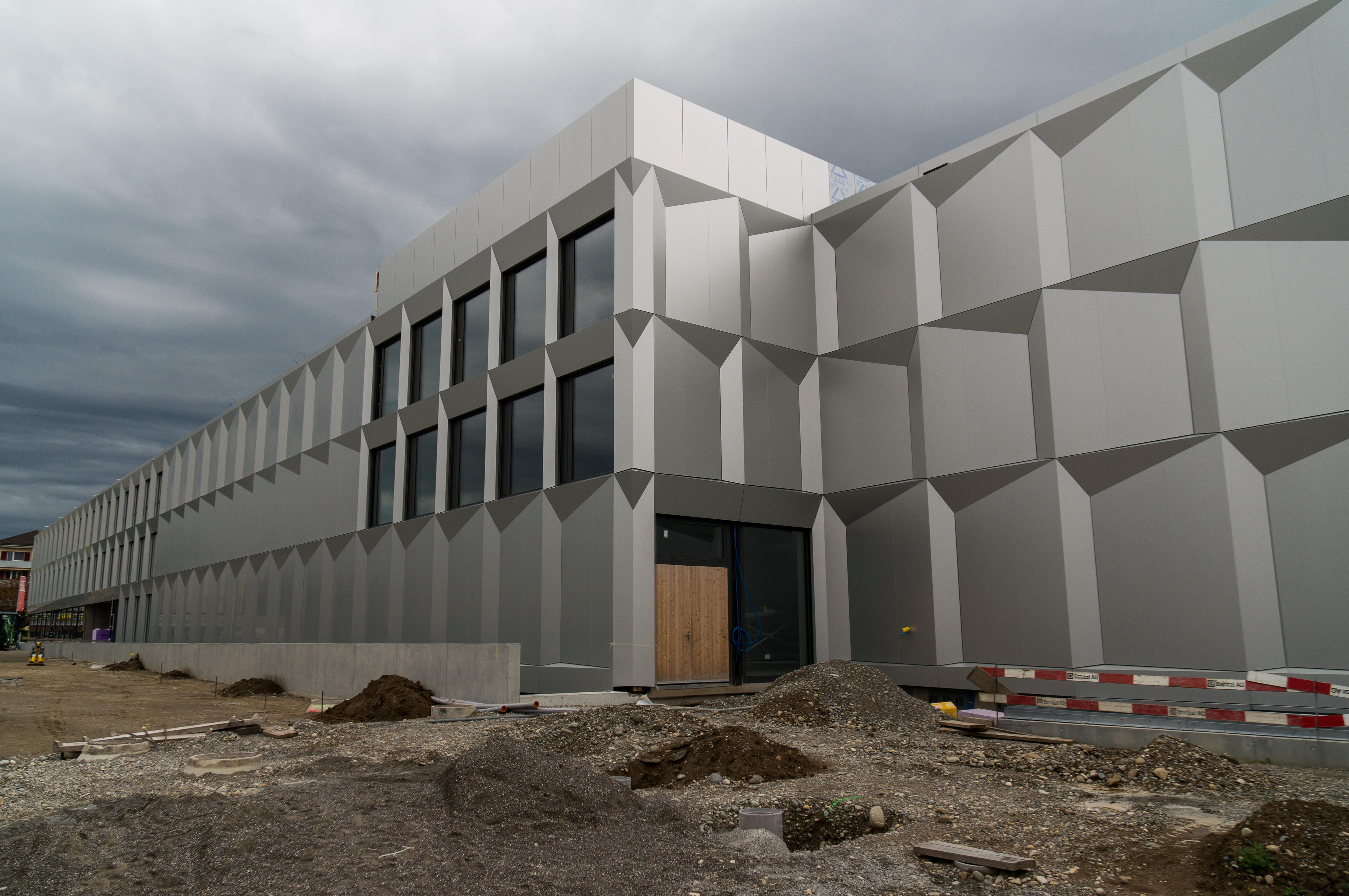 Westwing of the new 'Bildungszentrum Uster' in Uster